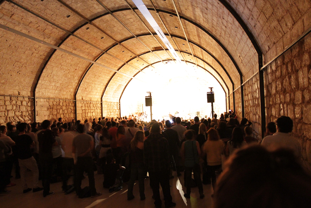 The Aljub is the 17th century watertank, now one of the museum Es Baluard's hall used to hold concerts, exhibitions and congress. This picture portraits the concert of the Oso Leone band in 2009.